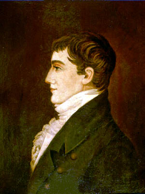 Louisiana State Museum